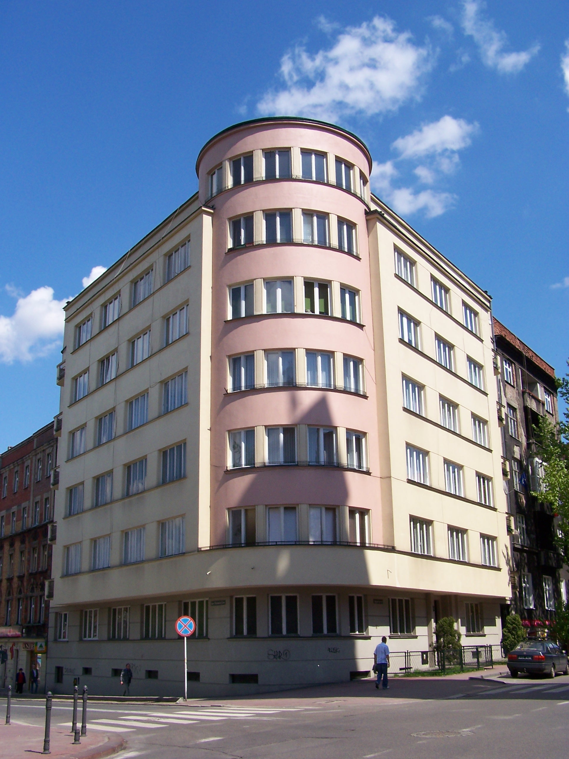 Tenement house in Katowice (Poland).